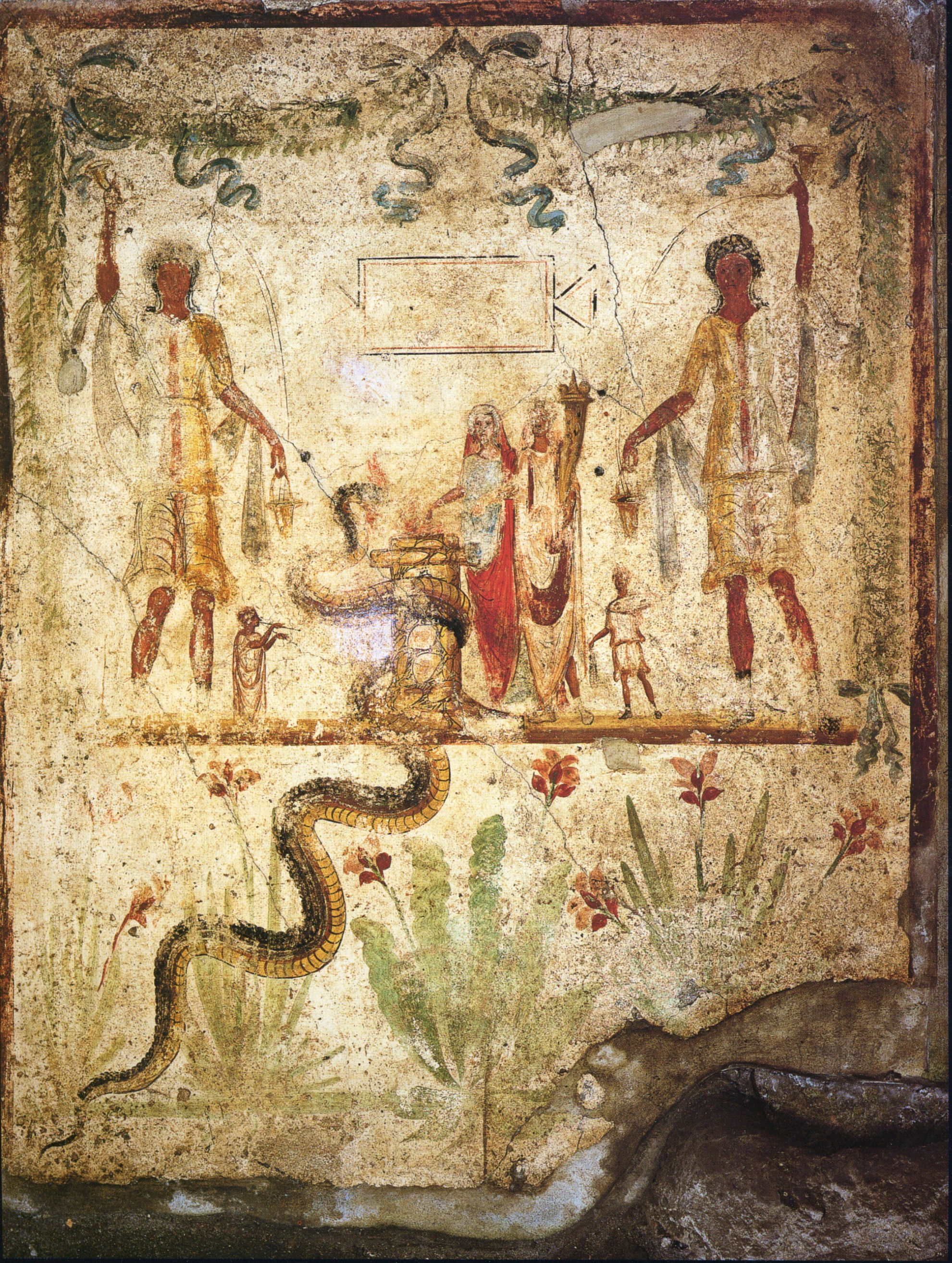 Roman fresco from the lararium of the house of Iulius Polybius (IX 13,3) in Pompeii.